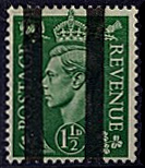 Training stamp of United Kingdom overprinted for postal personal training purposes